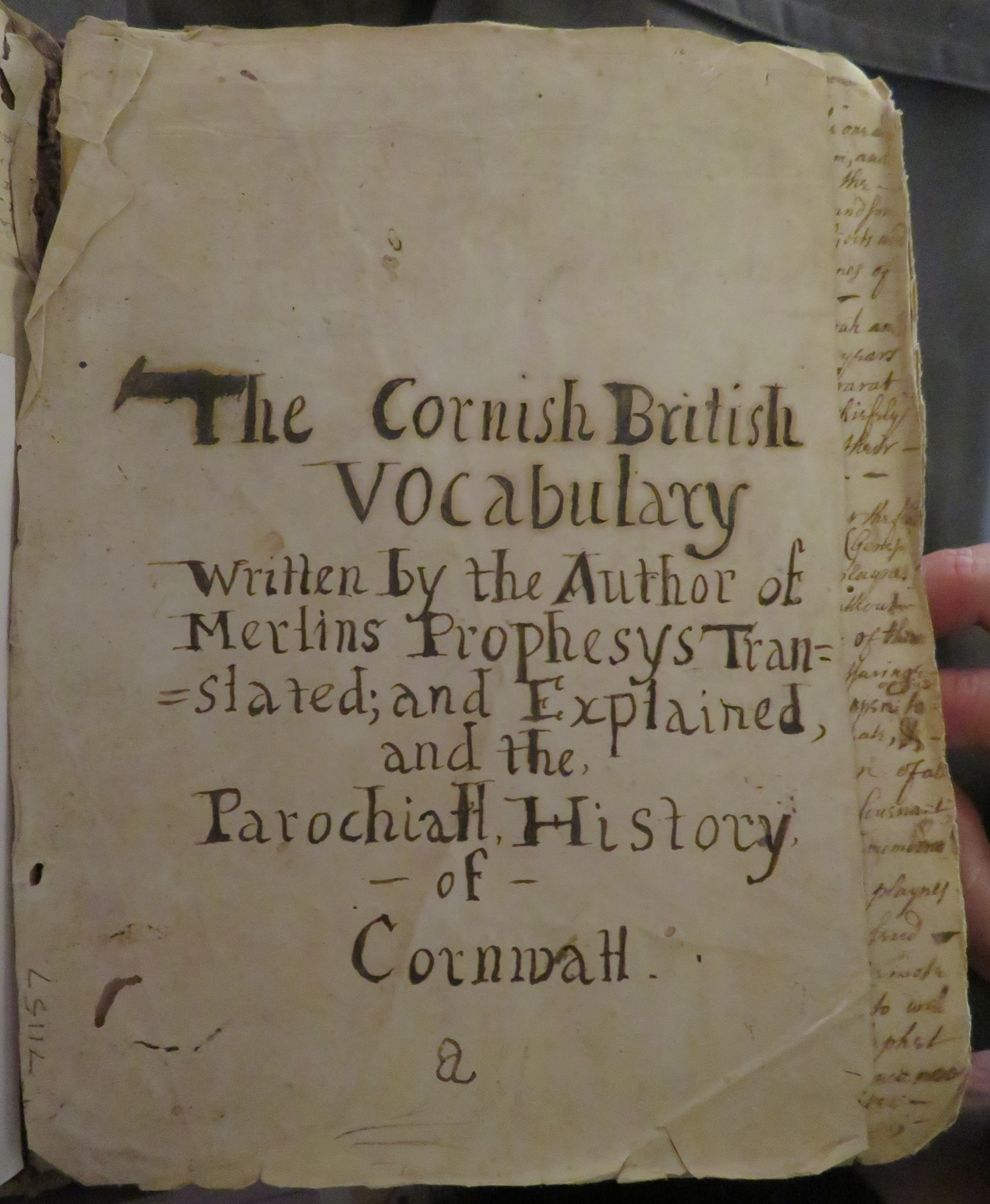 Title page of The Cornish British Vocabulary, written by the Author of Merlins Prophesys Translated; and Explained, and the Parochial History of Cornwall by William Hals (1655–1737). British Library Add. MS 71157.